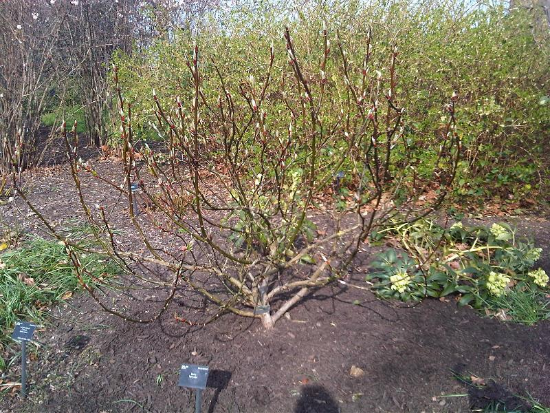 Salix fargesii at Kew Gardens, England.